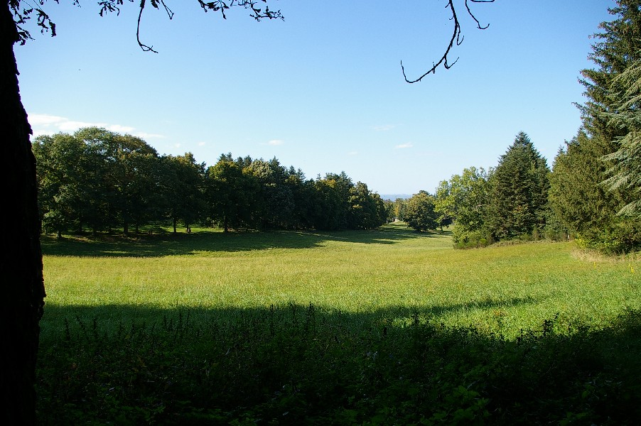 An overview of Maubourg castle